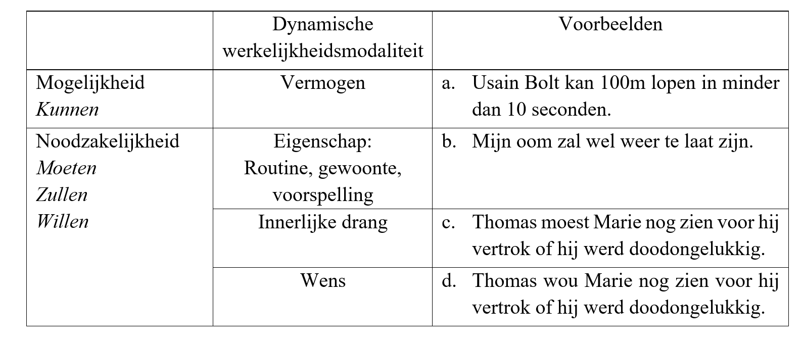 Dynamic modality with examples in Dutch